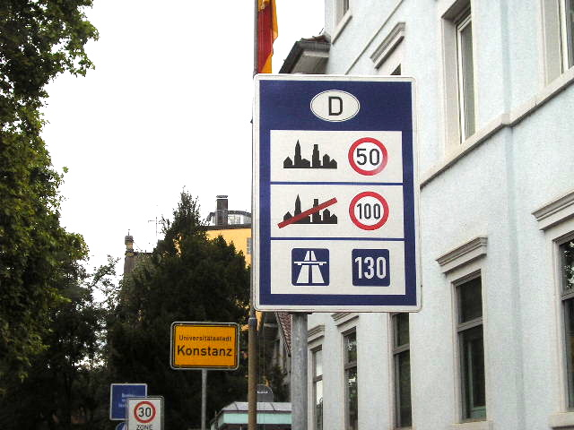 I am the author of the photo.